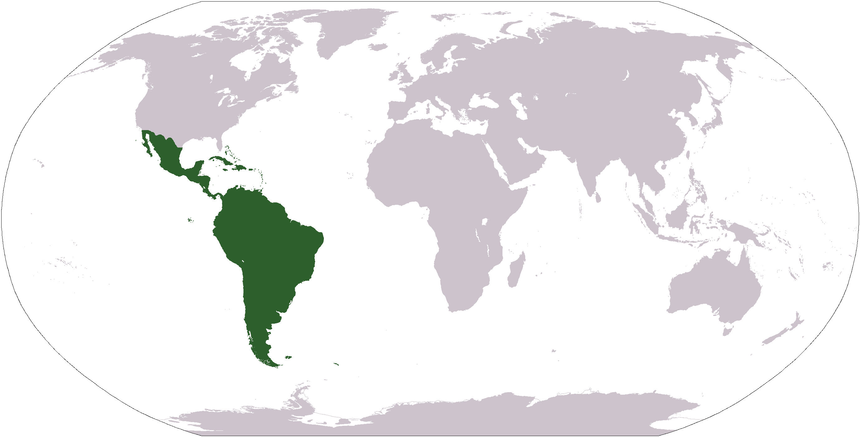 Location of Latin America, based on LocationSouthAmerica.png